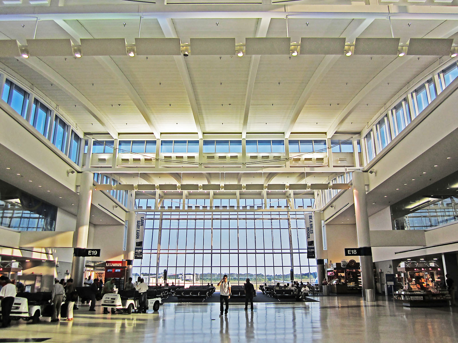 George Bush Intercontinental Airport Terminal E